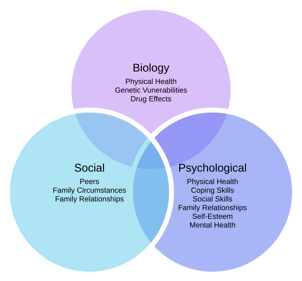 Biopsychosocial Model of Health 1